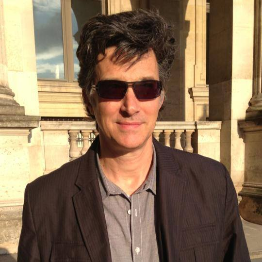 Photograph of filmmaker/director Chel White taken June of 2013 in Paris France.